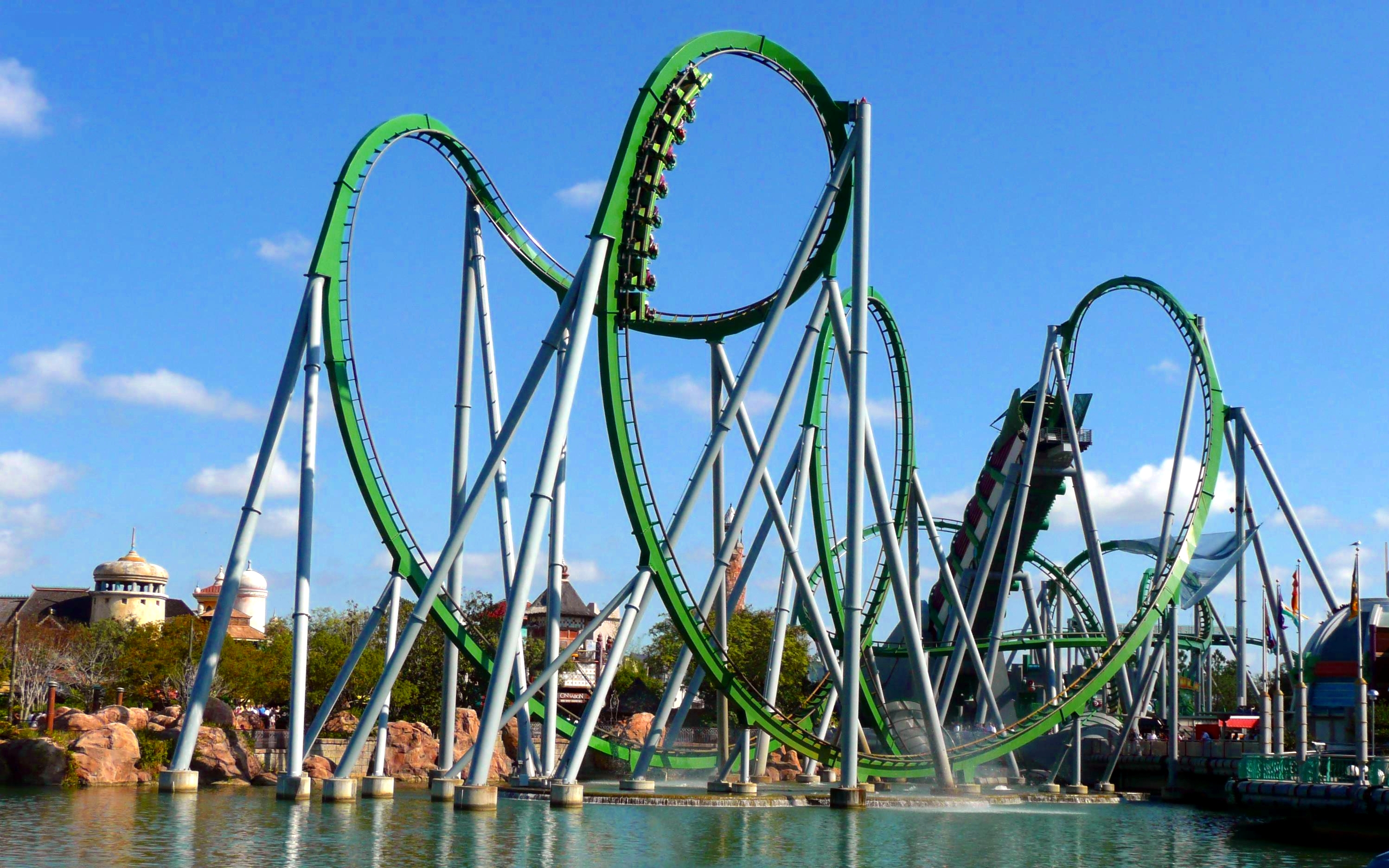 A Basic Picture, but I like it. Feel free to comment